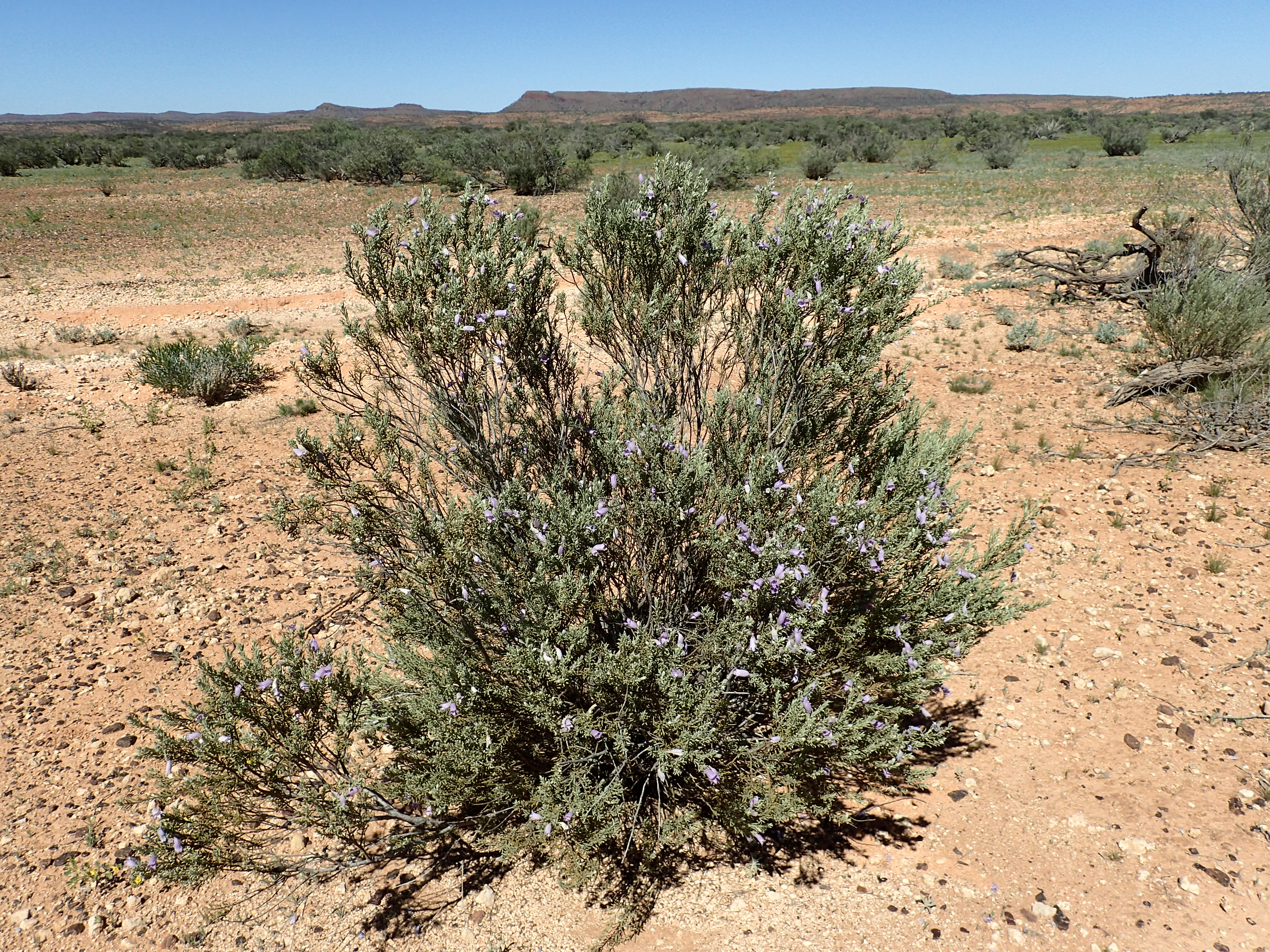 Eremophila pantonii growing 43 km east of "Pingandy"